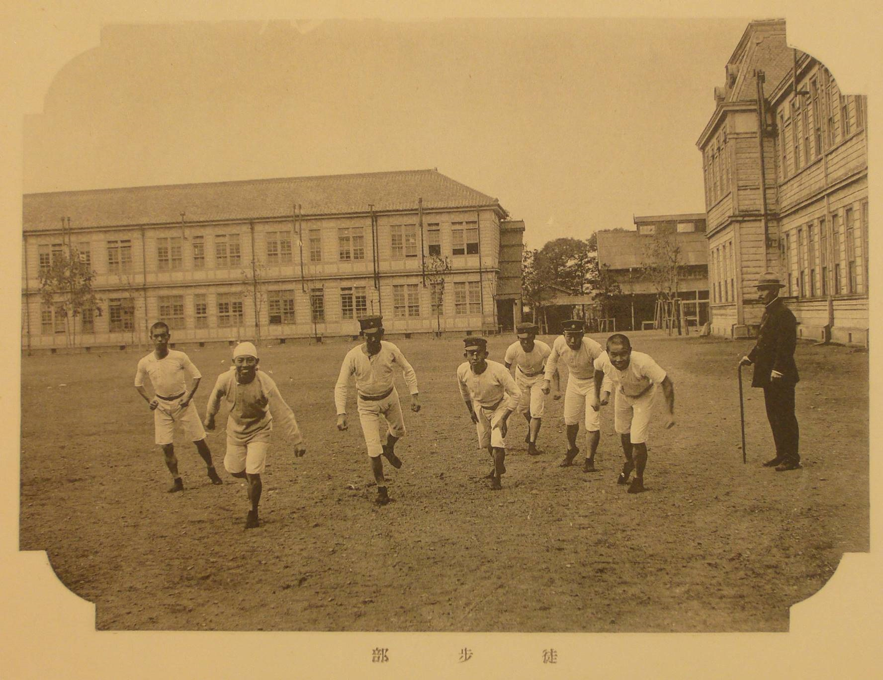 This is a training scene of Track & Field Team, Tokyo Higher Normal School in 1910s.